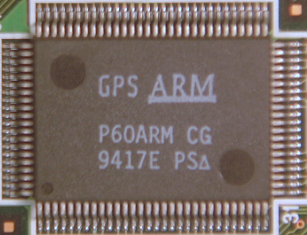 ARM60 CPU inside a Panasonic REAL 3DO Interactive Multiplayer FZ-1